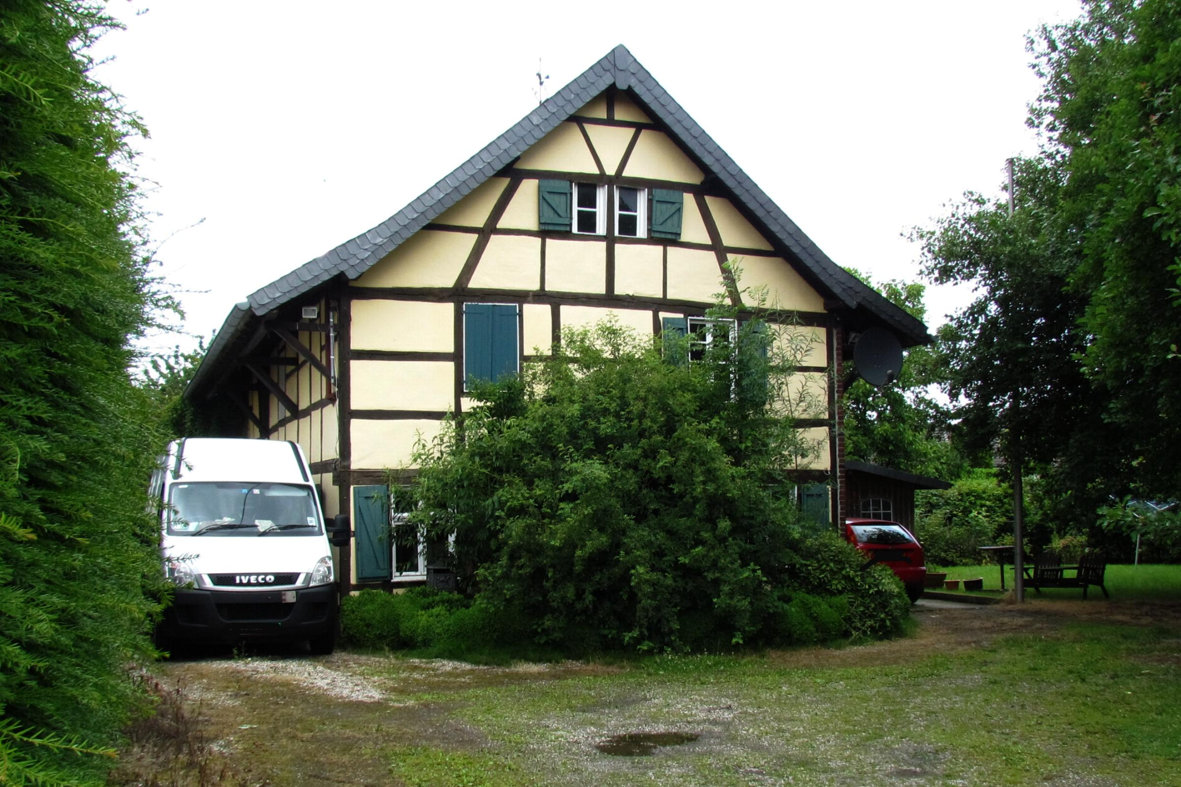 This is a photograph of an architectural monument.It is on the list of cultural monuments of Korschenbroich